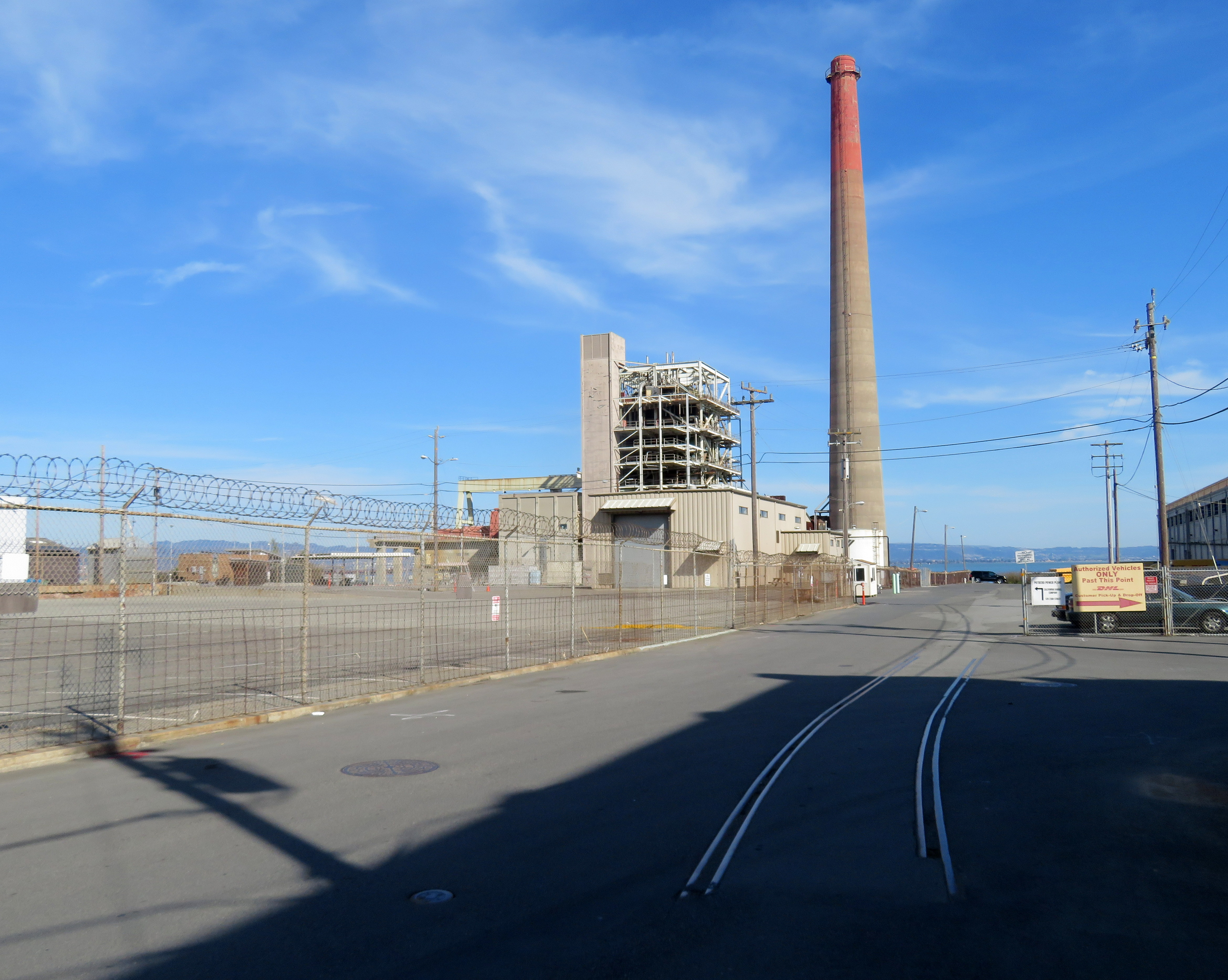 An old railroad siding and Unit 3 of the former Potrero Generating Station in February 2020